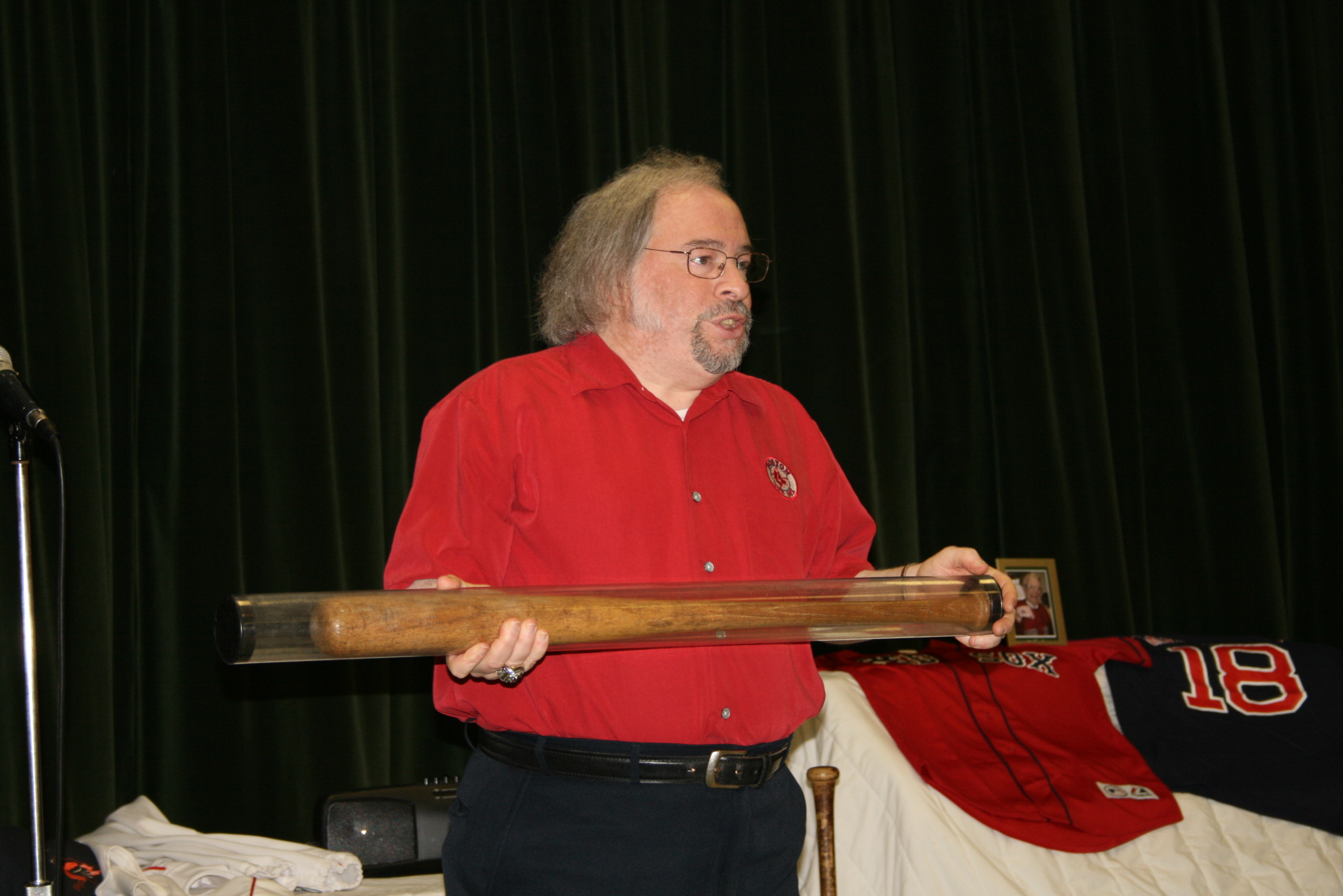 Carl Beane during Speaking Engagement, Agawam MA November 2007.